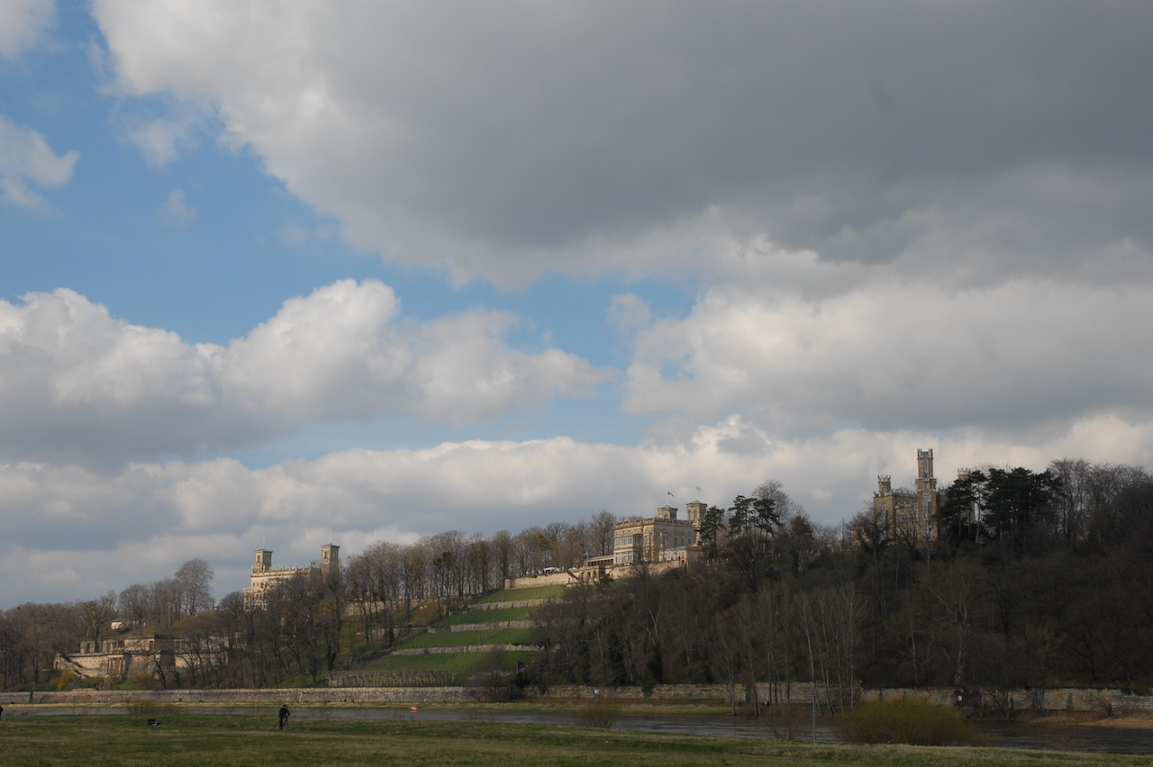 Elbe Palaces in Dresden